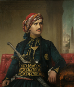 Edward Ludlow Mooney, Turkish Courtier, 1848-1849, oil on canvas, 42 x 36 in. (unframed). National Academy Museum, New York, Bequest of Ella Mooney in memory of her father, Edward Mooney, 1906.